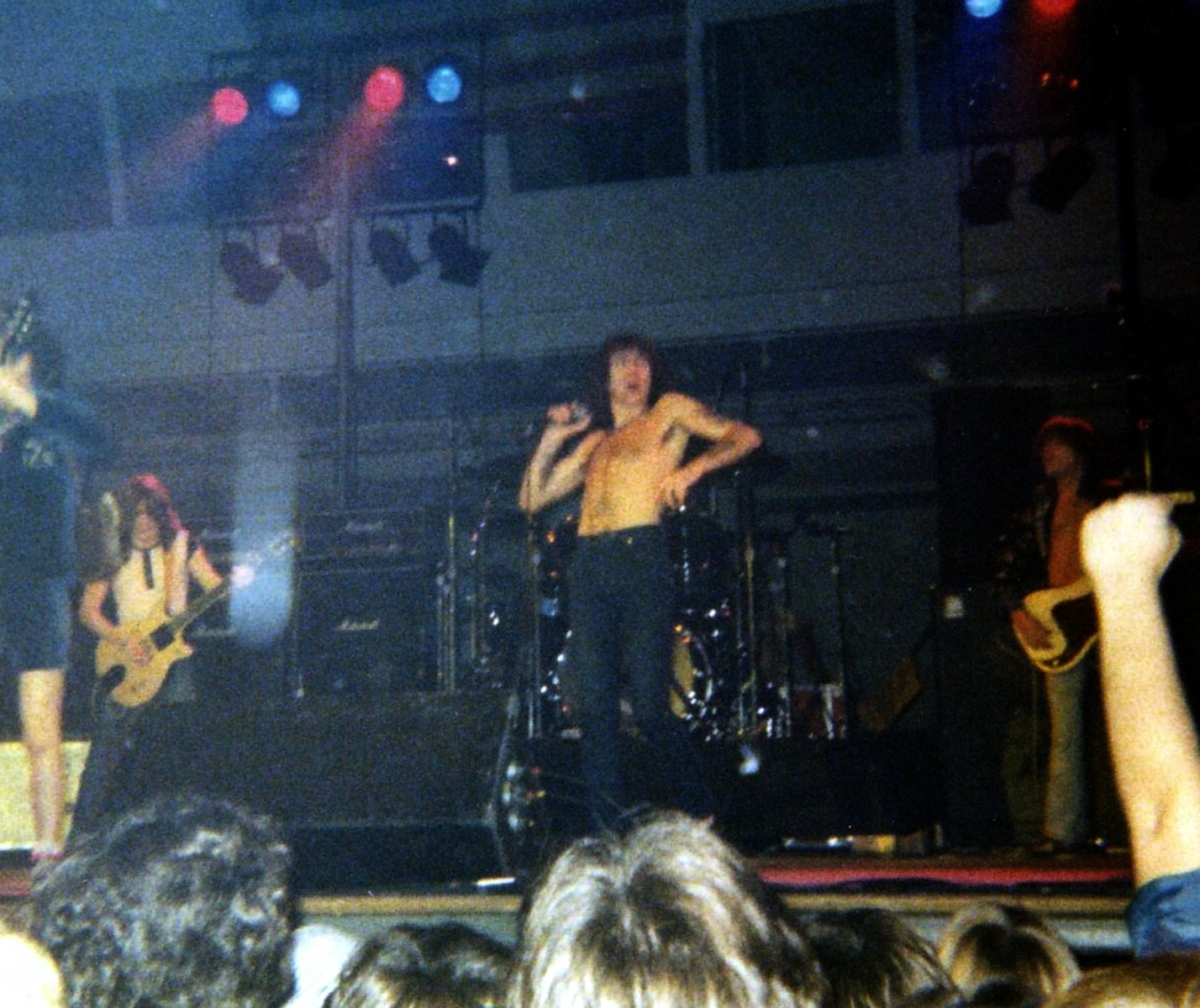 AC/DC with Bon Scott.